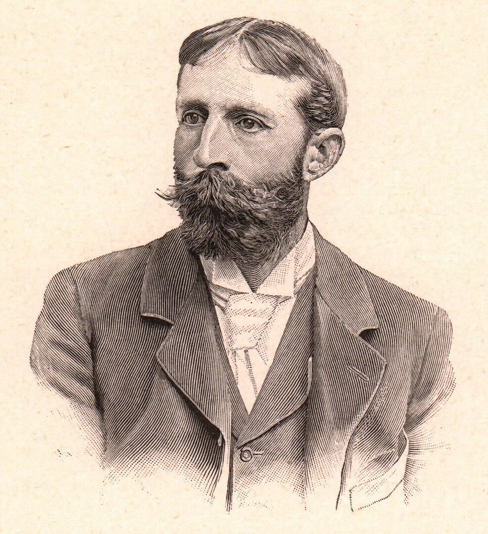 American painter Edwin Lord Weeks (1849-1903)